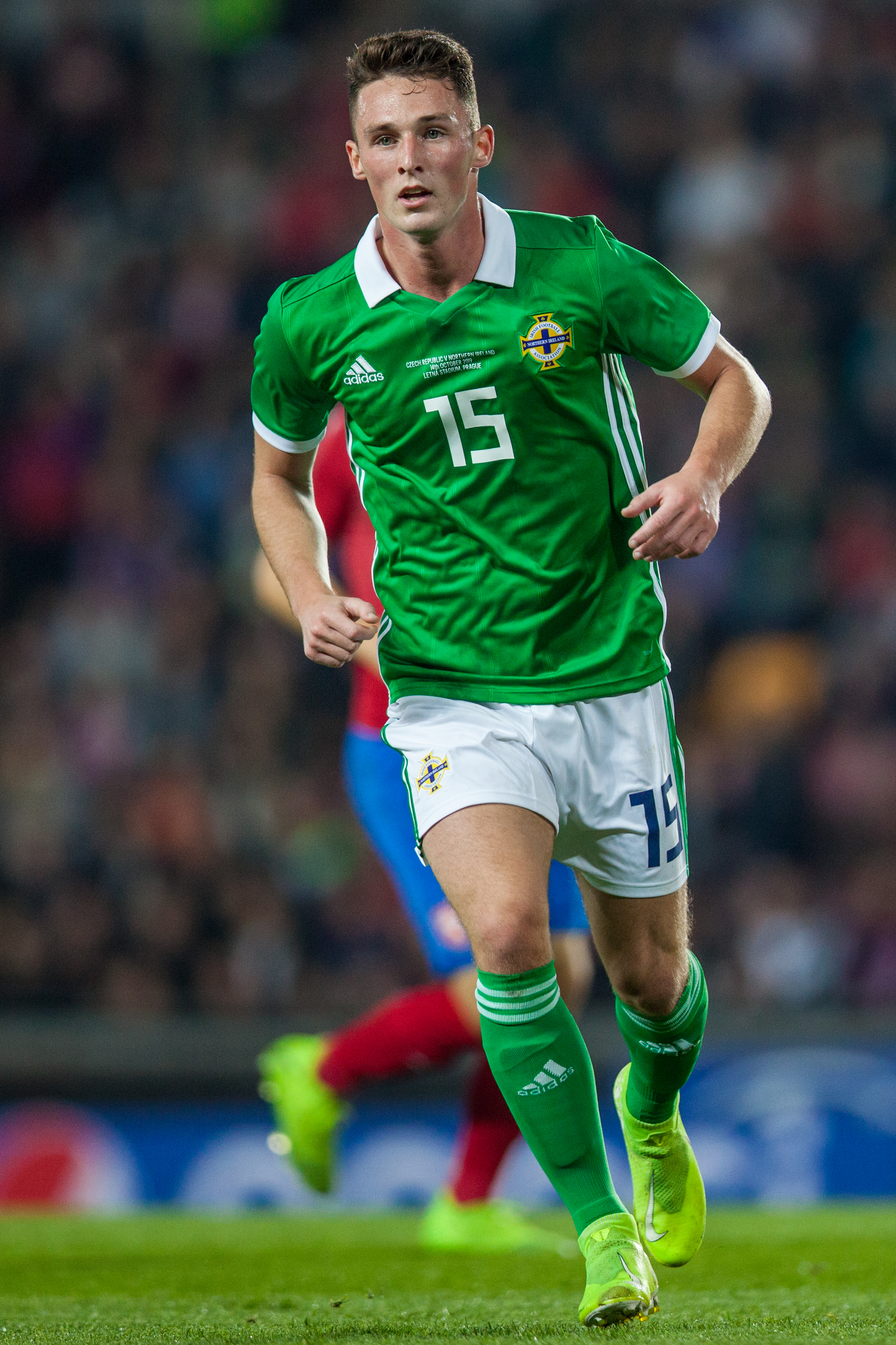 Jordan Thompson in an international friendly match between Czech Republic and Northern Ireland (2:3), Stadion Letná (Prague) 2019-10-14 The making of this work was supported by Wikimedia Austria. For other files made with the support of Wikimedia Austria, please see the category Supported by Wikimedia Österreich. Personality rights warningAlthough this work is freely licensed or in the public domain, the person(s) shown may have rights that legally restrict certain re-uses unless those depicted consent to such uses. In these cases, a model release or other evidence of consent could protect you from infringement claims.